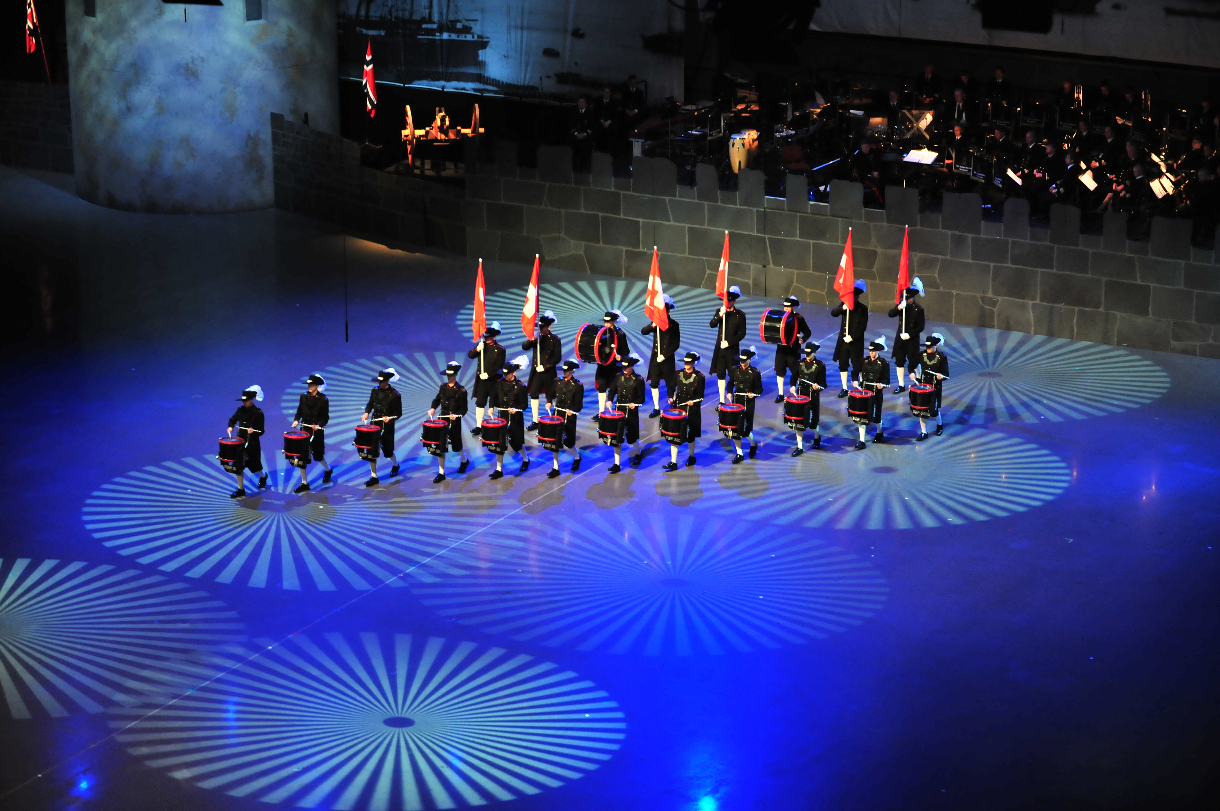 The Top Secret Drum Corps form Switzerland is an American-style drum-line in the spirit of "Blast" and Drum Corps International